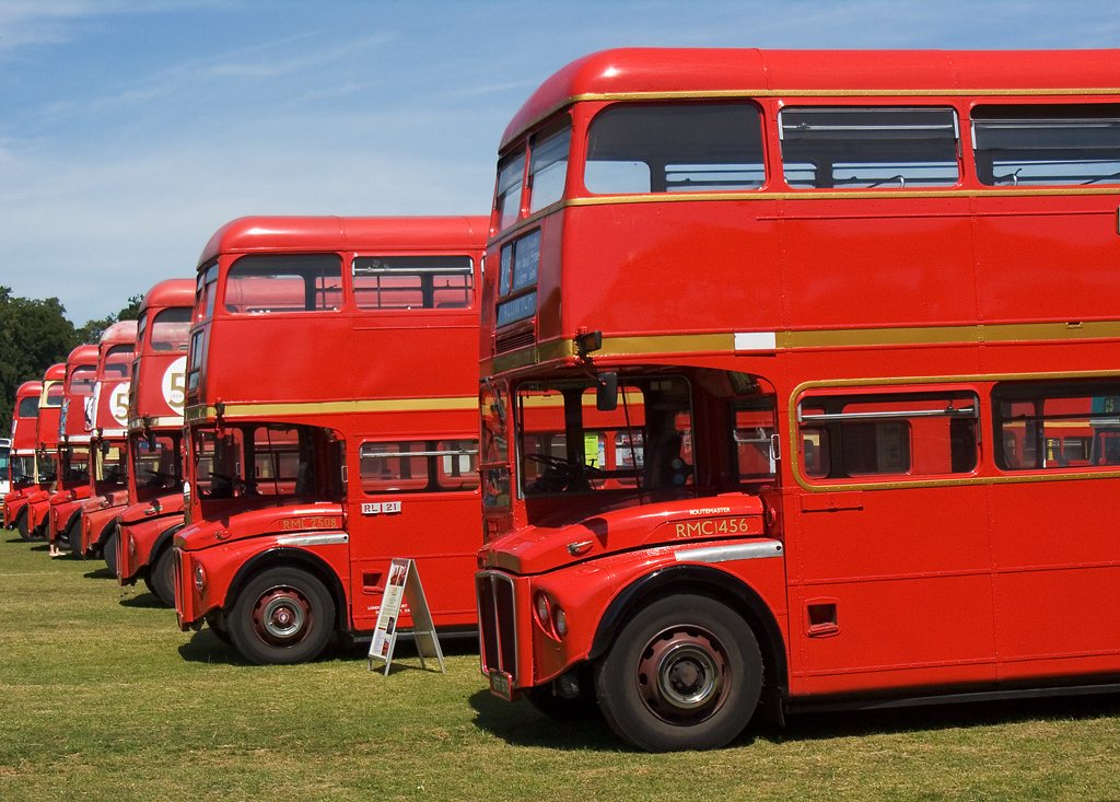 A row of Routemaster buses pictured at the 2006 Alton, Hampshire bus rally. The front two are the preserved vehicles (nearest) Routemaster coach RMC1456 (reg. LFF 875) and Routemaster bus RML2508 (reg. JJD 508D).